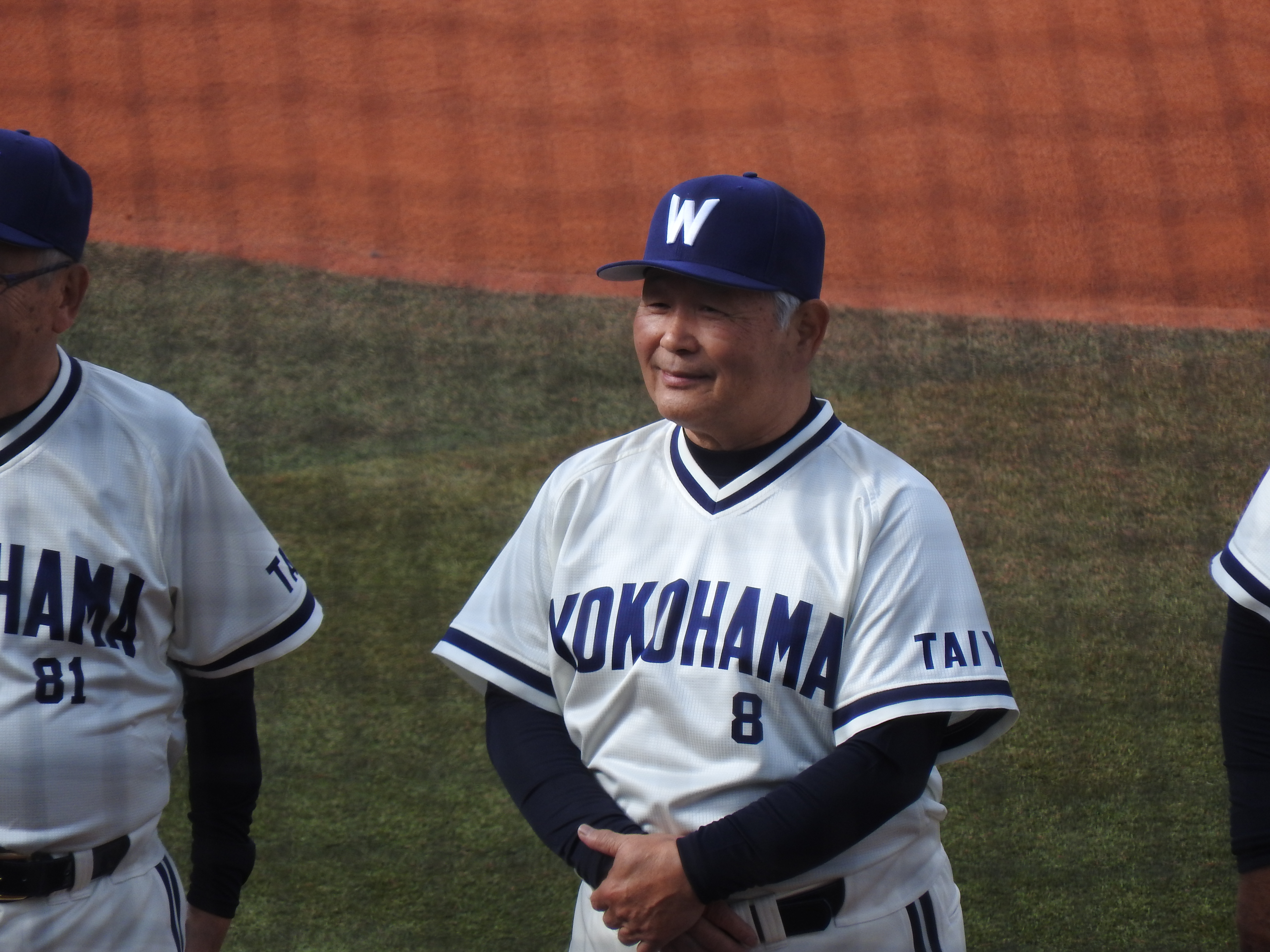 baseball player